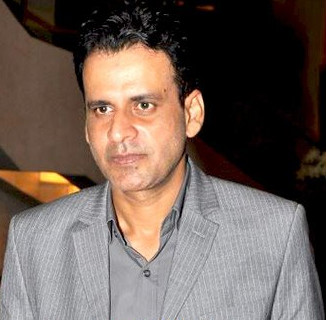 Manoj Bajpai in 2010